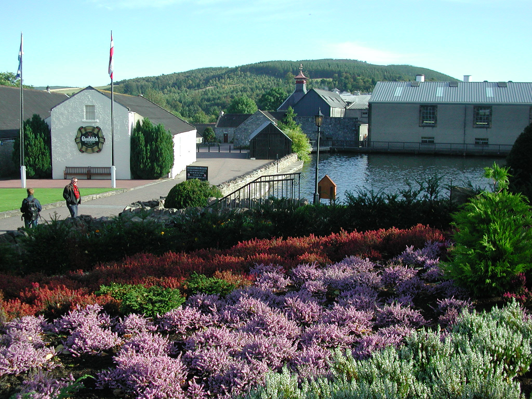 Glenfiddich distillery, Dufftown, Scotland 2005